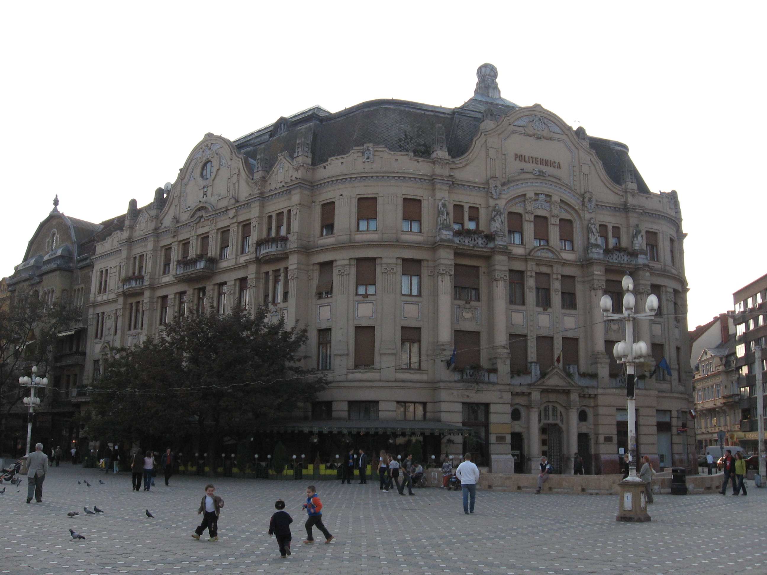 "Politehnica" University's main building, the "Lloyd Palace", situated in Victoria square.